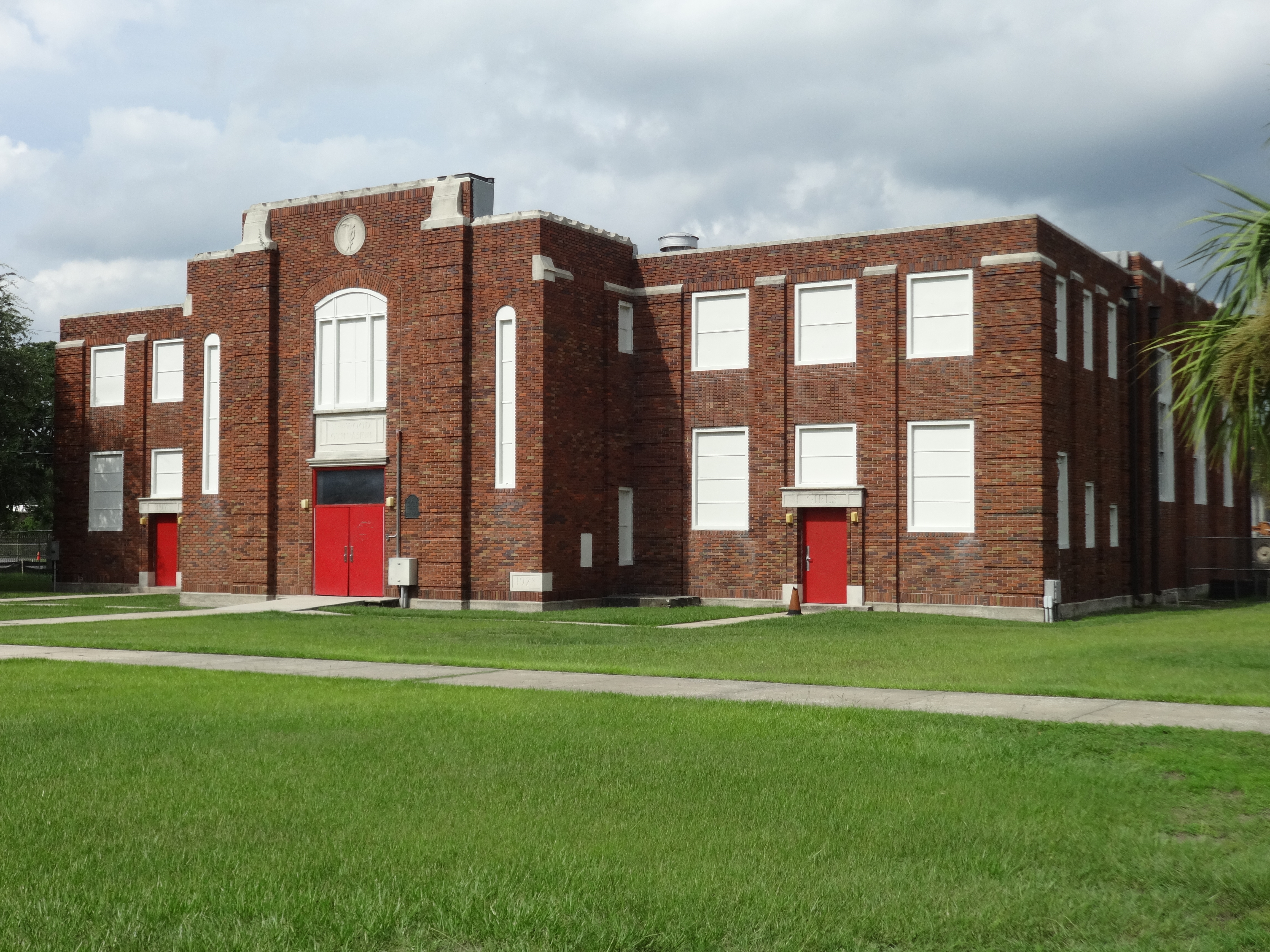 Glynn Academy, Brunswick, Glynn County, Georgia